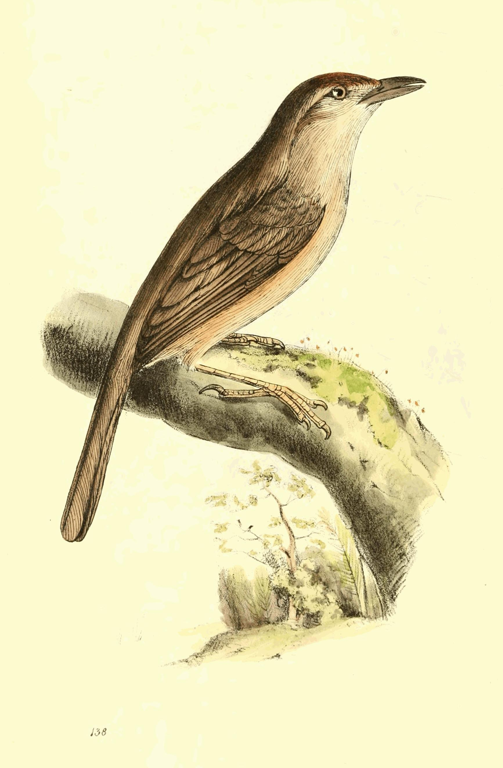 Plate 138. Malurus garrulus. Noisy Soft-tail Warbler. Modern accepted name (2012) is Phacellodomus rufifrons[1].